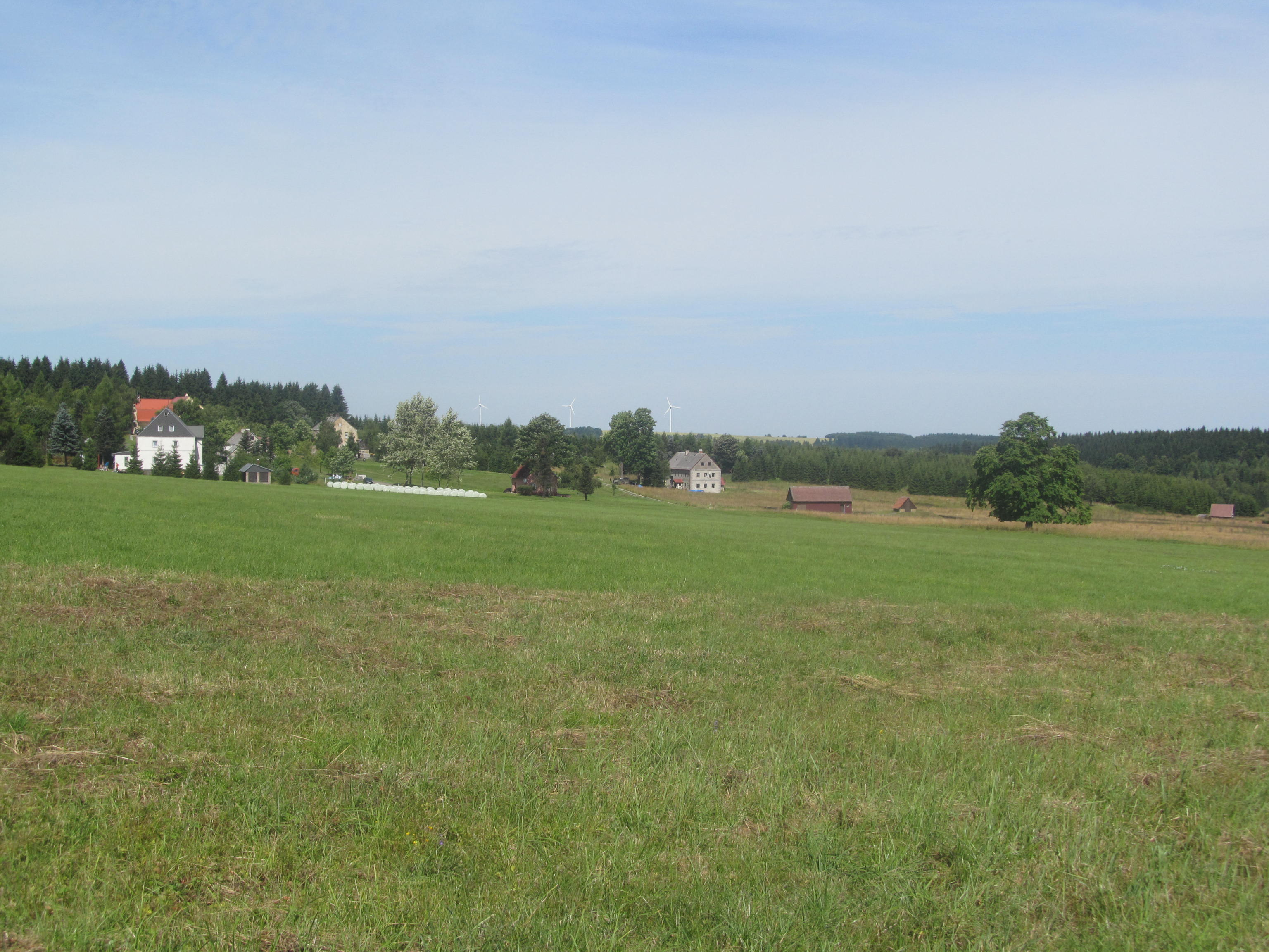 The trailhead of Sklářská stezka Moldava